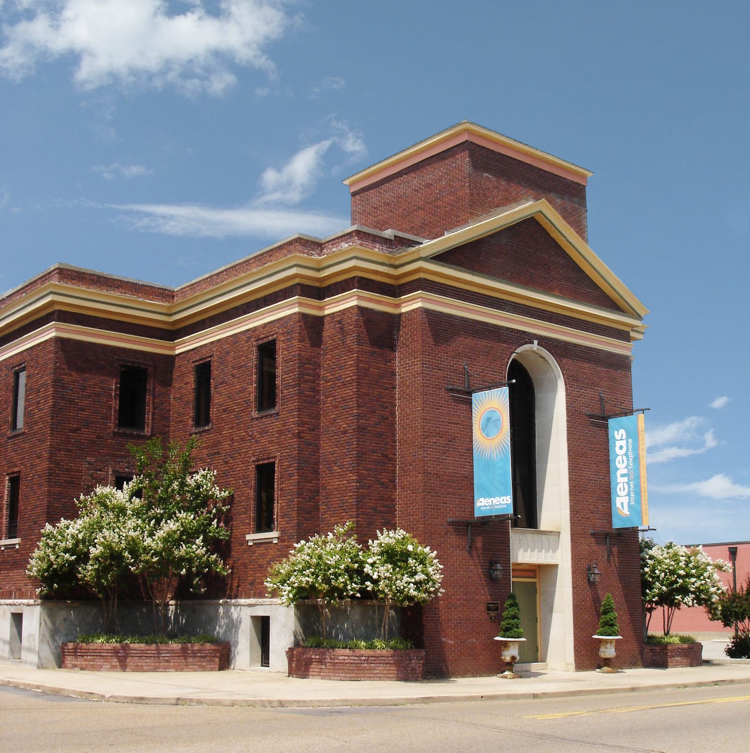 Picture of the renovated First Cumberland Church, now home to Aeneas Internet and Telephone in downtown Jackson Tennessee.